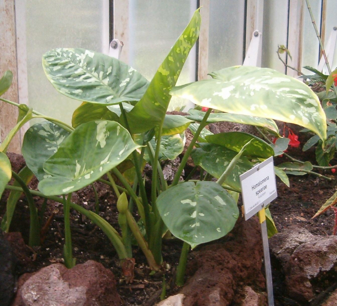 At Botanical Gardens Berlin-Dahlem Species Homalomena speariae